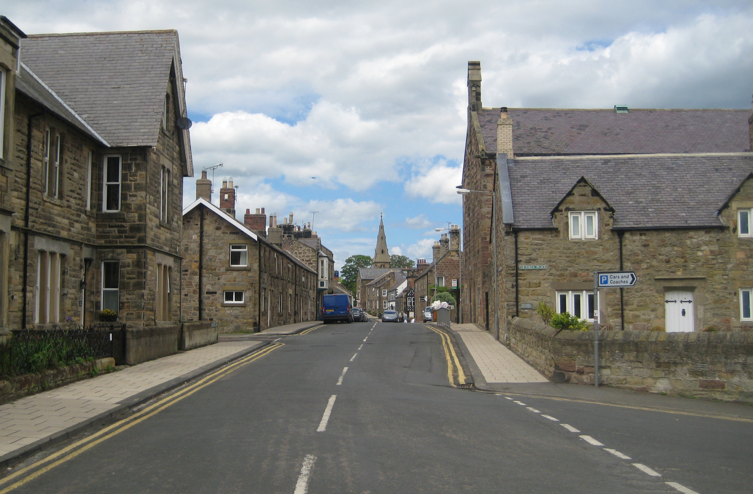 A recreation of File:Alnmouth 19th century photograph 1.jpg taken in 2013 shows that, barring the construction of the houses visible at left, Northumberland Street in Alnmouth has barely changed since the late 19th century.